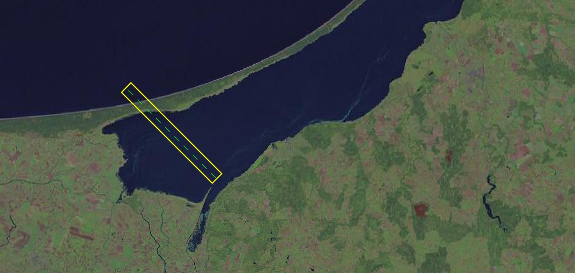 Planned route of a canal through Vistula Peninsula via Skowronki, including fairway to Port of Elbląg